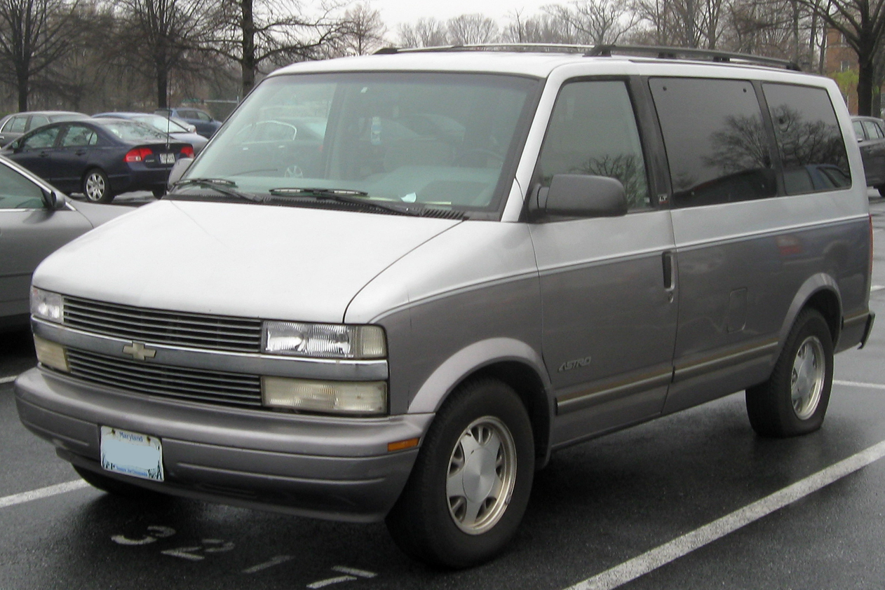 1995 Chevrolet Astro photographed in College Park, Maryland, USA.